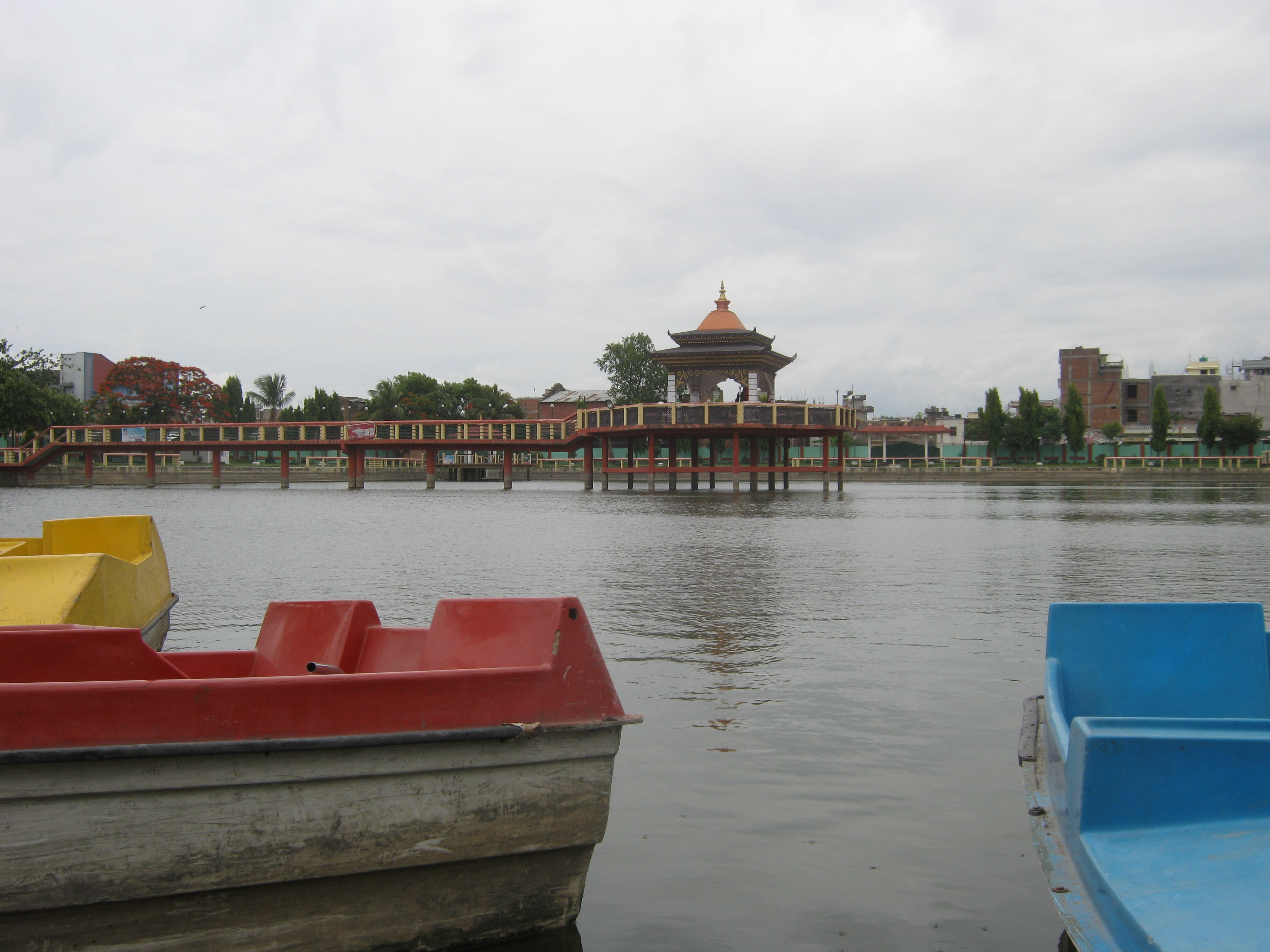 one of birgunj's fun sights .